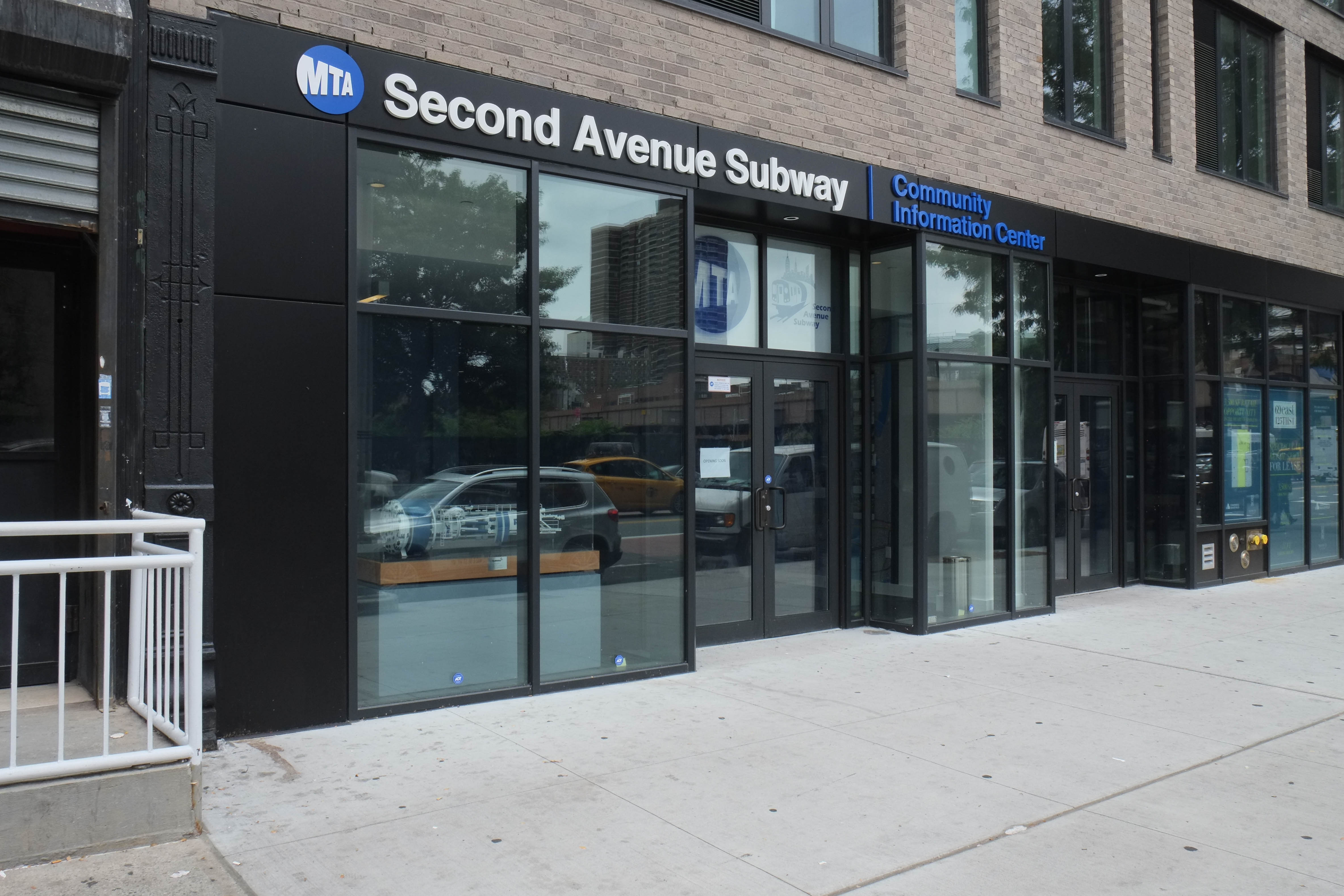 Second Avenue Subway Community Information Center